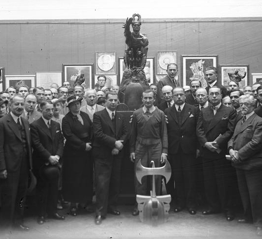 Stanisław Szukalski in Kraków 1936.